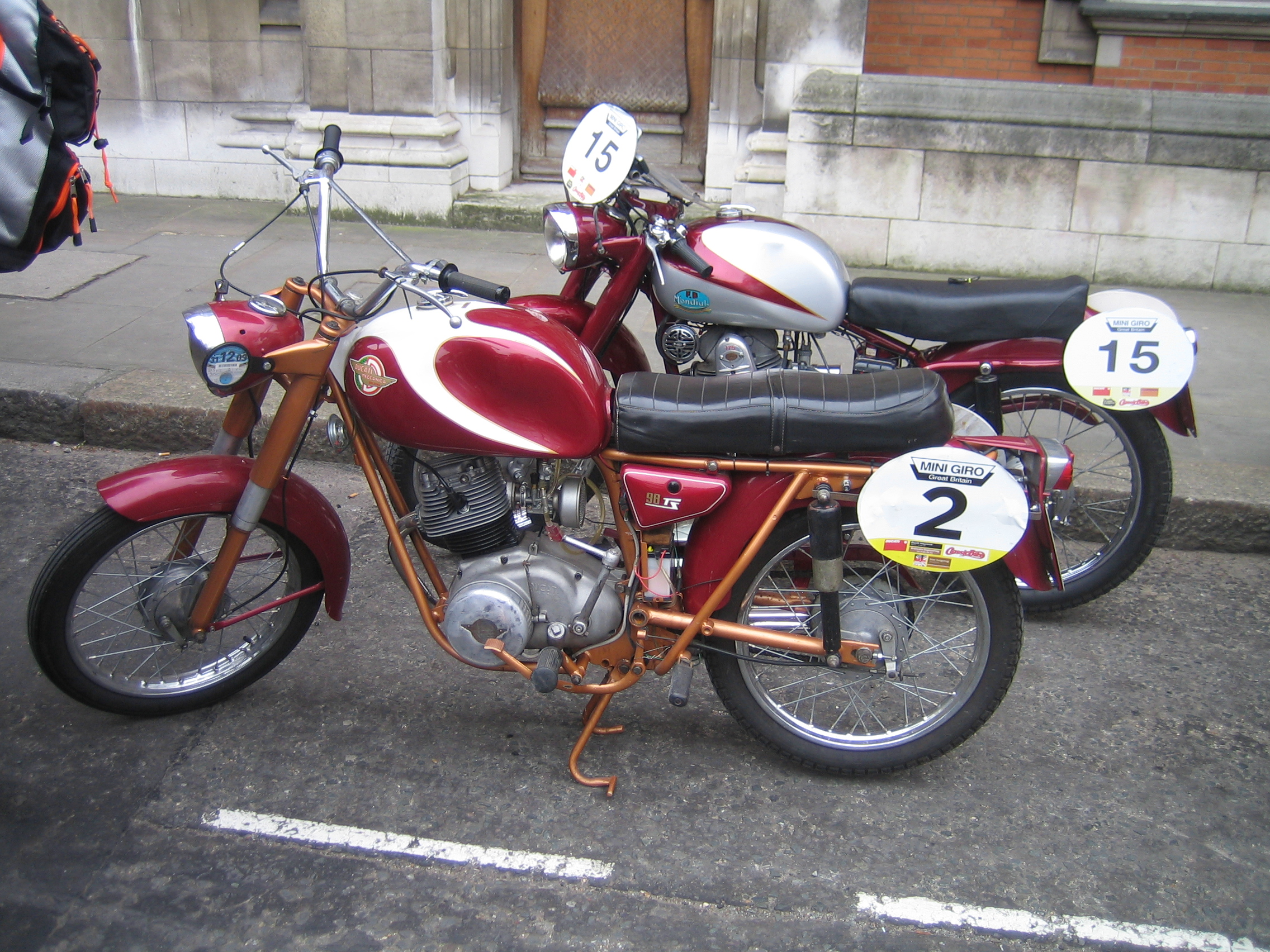 Ducati Owners Club in the 2009 London Parade. 1958–60 Ducati 98 TS. Single-cylinder OHV air-cooled four-stroke, 98.058 cc. Power: 6 hp @ 6,800 rpm. Top speed: 85 km/h.